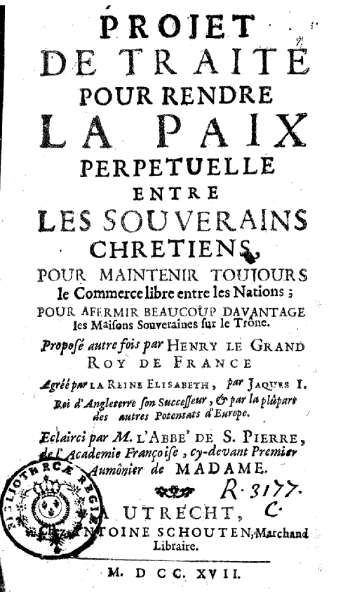 Title page of Castel de Saint-Pierre, Charles-Irénée (1658-1743), Projet de traité pour rendre la paix perpétuelle entre les souverains chrétiens... éclairci par M. l'abbé de S. Pierre,... (Utrecht: A. Schouten, 1717).